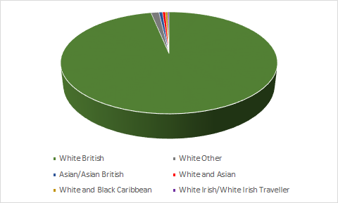 Chart showing ethnic groups in Gisleham